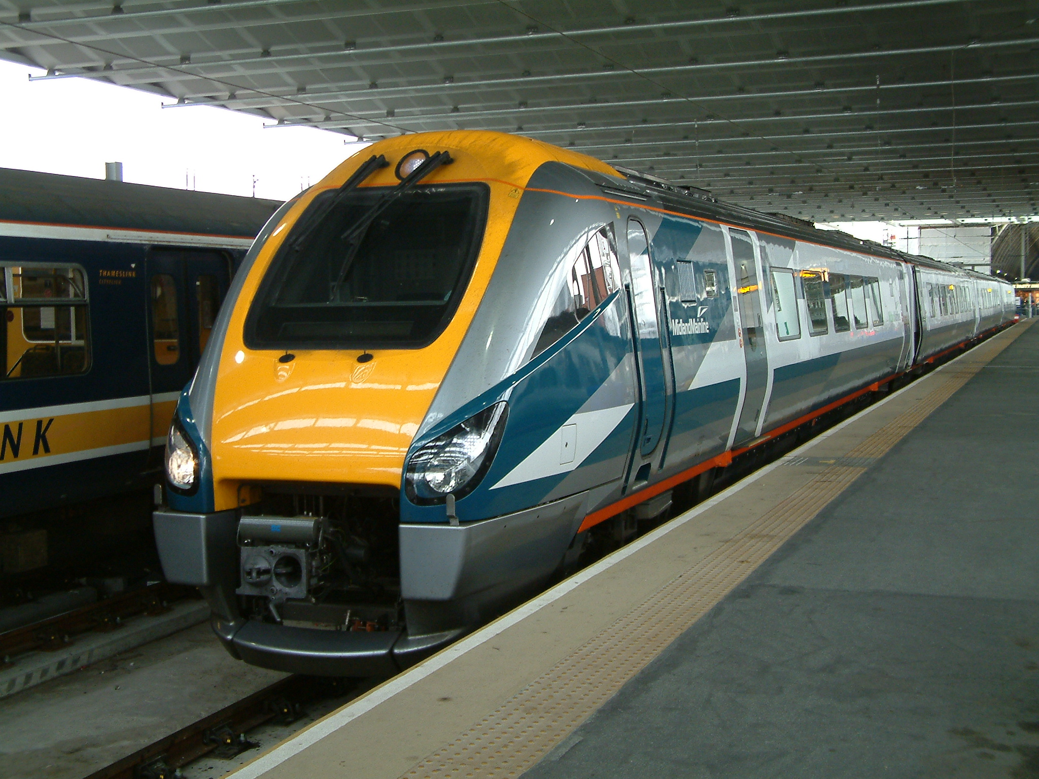 BR class 222 "Meridian" in Midland Mainline livery at St.Pancras